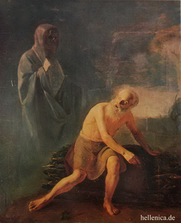 Greek painter Nikolaoaos Kounelakis (1829-1869):Old man and Death